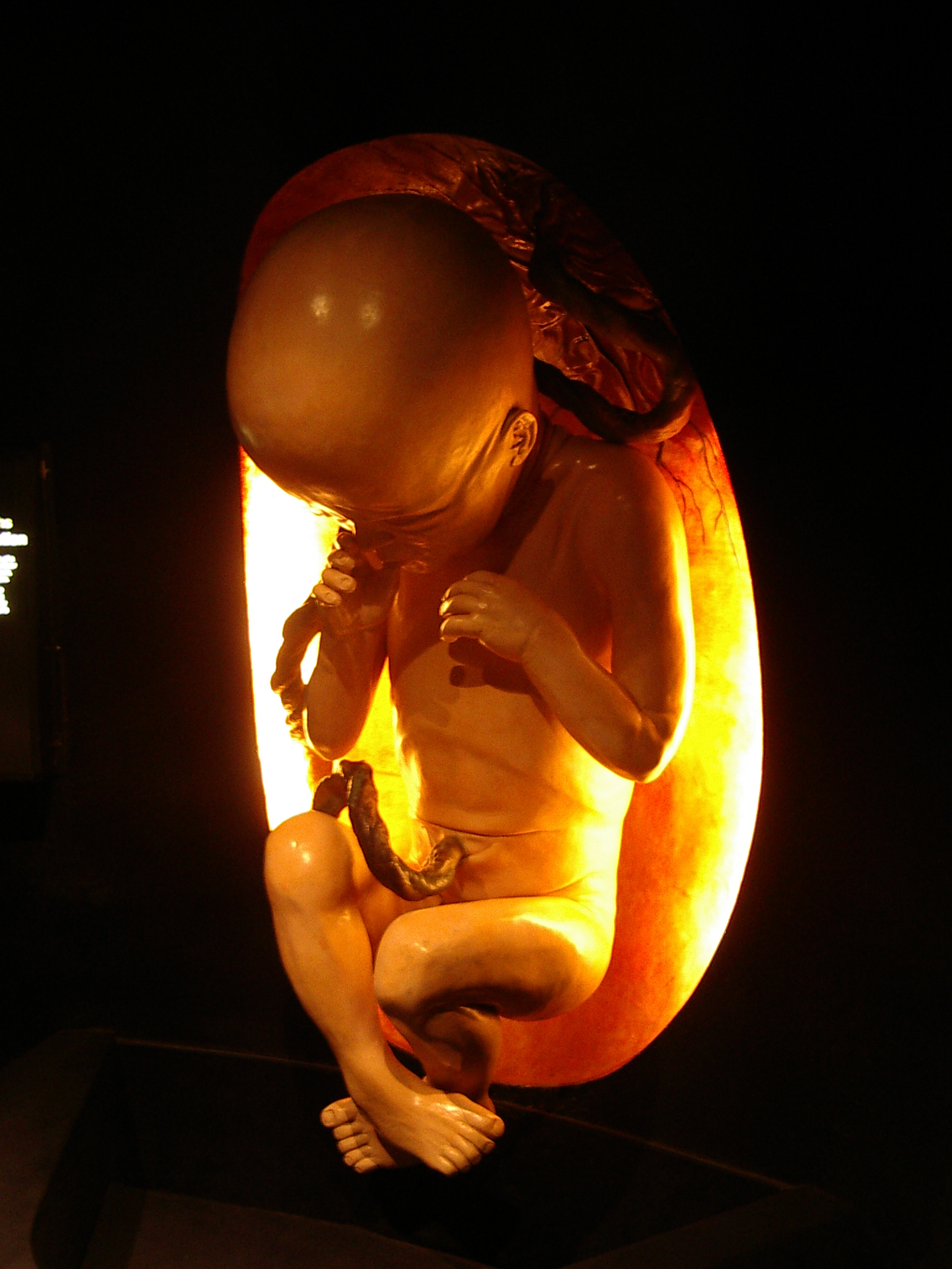 Foetus (in a natural history museum)